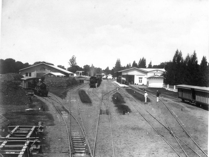 View on the railway station in Surabaya, Java.